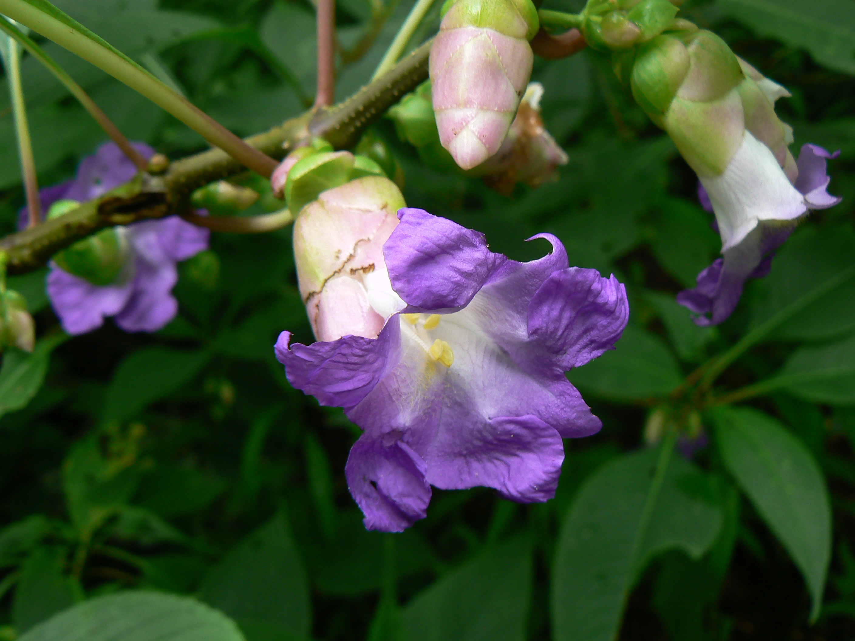 Acanthaceae (acanthus or ruellia family) » Strobilanthes callosa stroh-bil-AN-theez -- meaning, cone flower kal-OH-sus -- meaning, calloused or thick commonly known as: karvy • Hindi: मरुआदोना maruadana • Manipuri: খুম khum • Marathi: कारवी karvy Endemic to: India (Western Ghats and north-eastern states) ... blooms only once in seven years - it has sometimes meant a continuous and patient wait for the plant to yield blooms! References: Flowers of India • Wikipedia Blogged at: Slice of the Day by Vasant M. Salian Botany Photo of the day, January 13, 2009 at UBC Botanical Garden